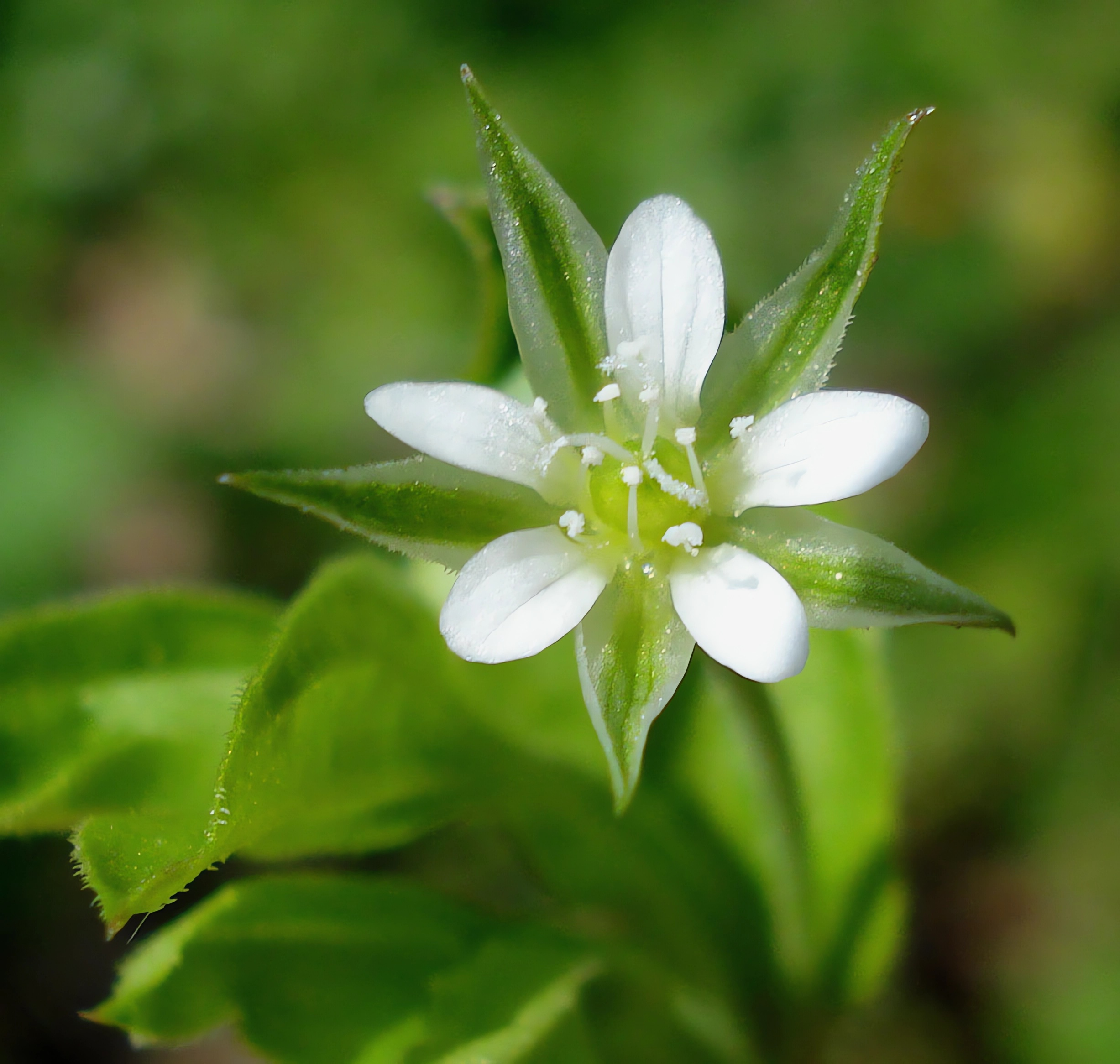 Moehringia trinervia (Unterfranken, Germany)